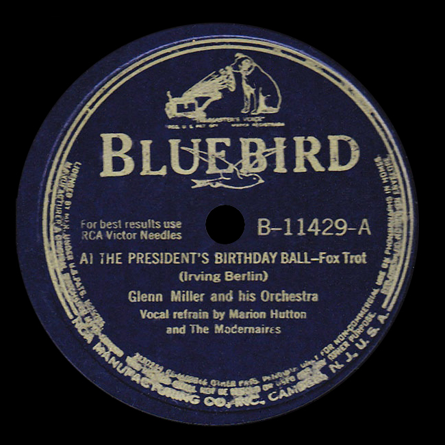 Bluebird Records 78 label by the Glenn Miller Orchestra, with vocal refrain by Marion Hutton and The Modernaires, for the Irving Berlin song "At the President's Birthday Ball", recorded January 5, 1942. The President's Birthday Ball was a national event presented 1934–1945 on Franklin D. Roosevelt's birthday, January 30, in communities throughout the U.S. as a fundraiser for the organization that came to be called the March of Dimes.